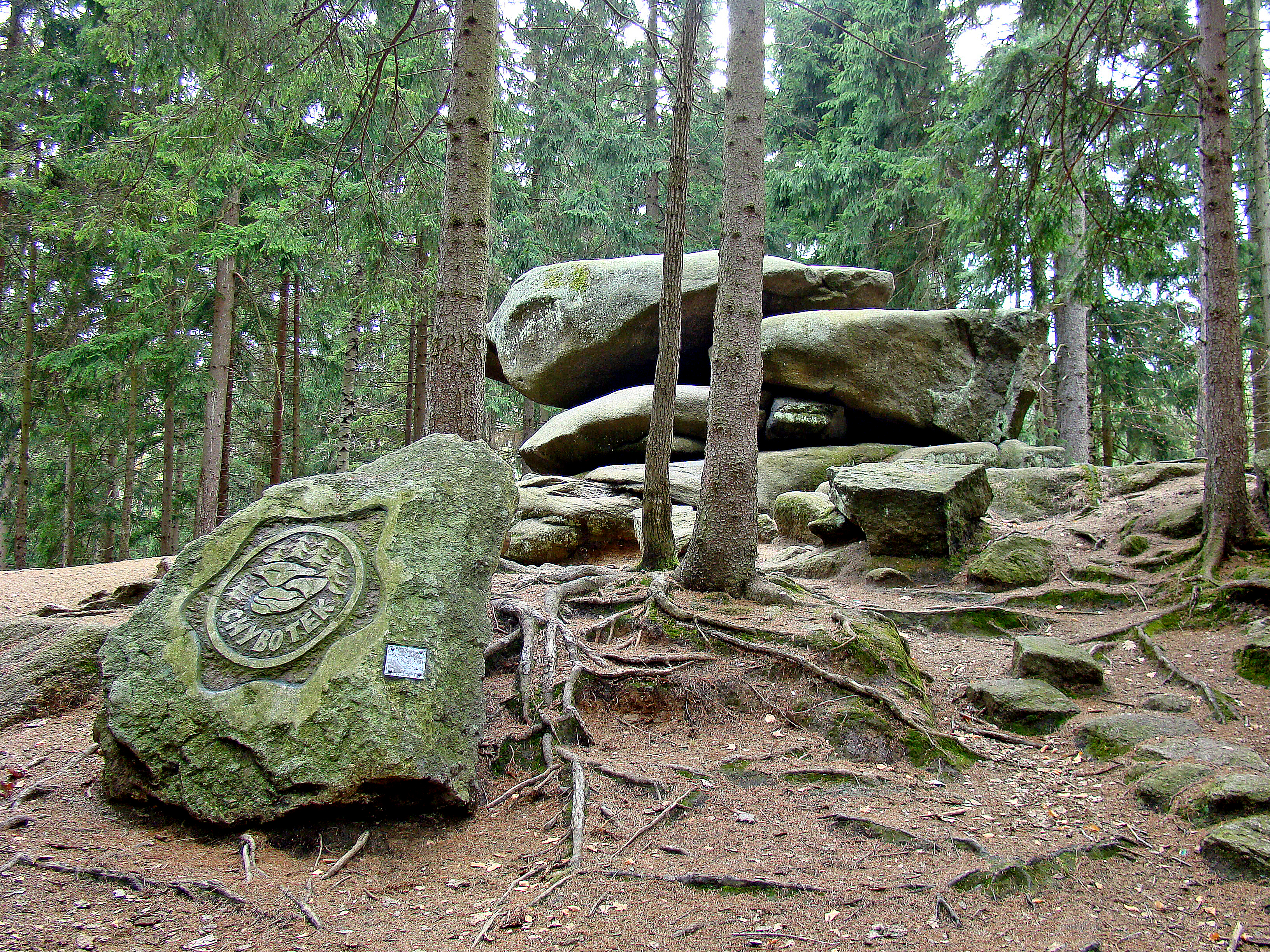 Chybotek Szklarska Poreba, Poland